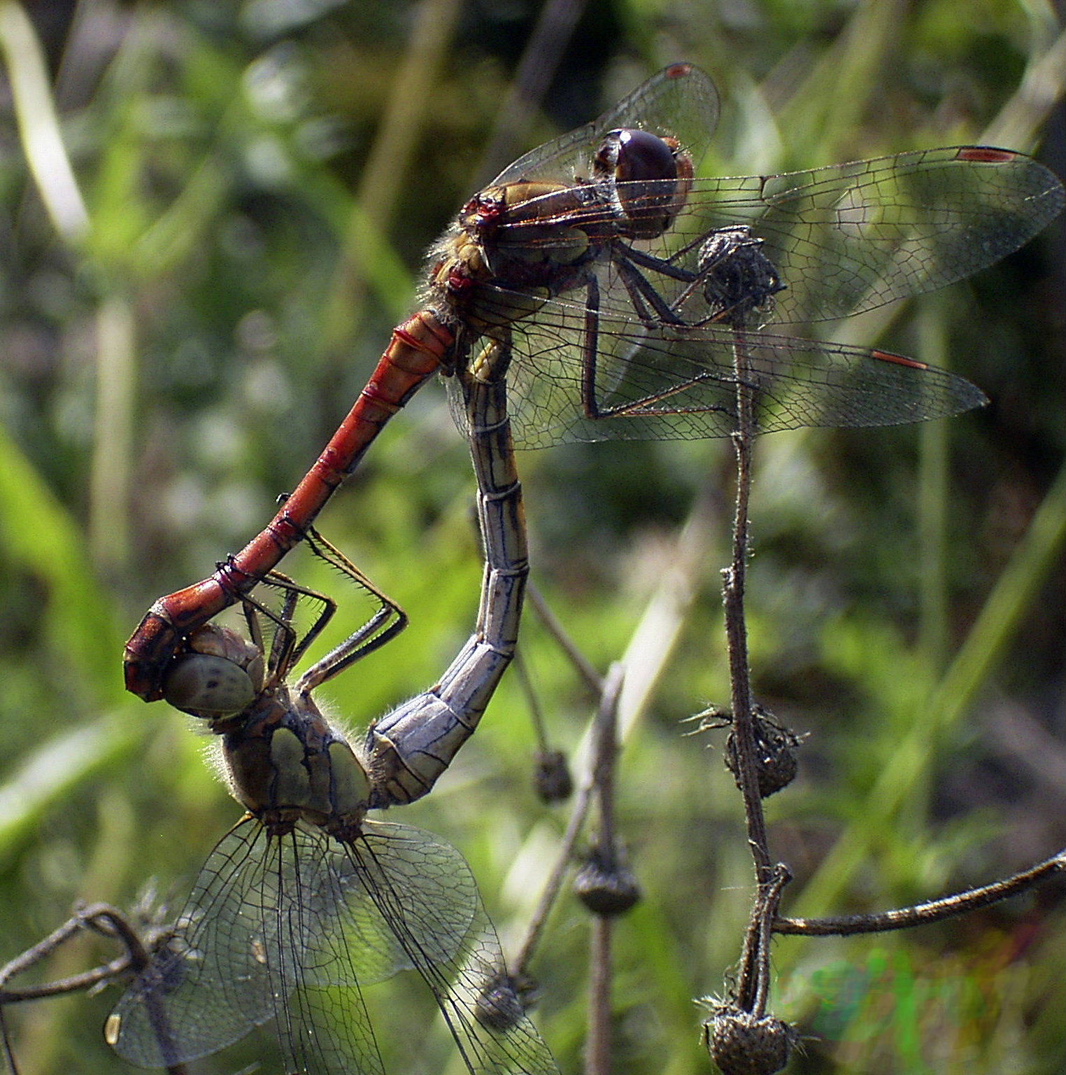 pair of Sympetrum striolatum Southern Germany, 700m